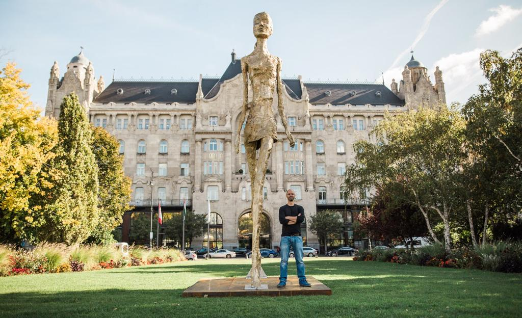 An image og Eran standing next to his own sculptor named Buda Girl